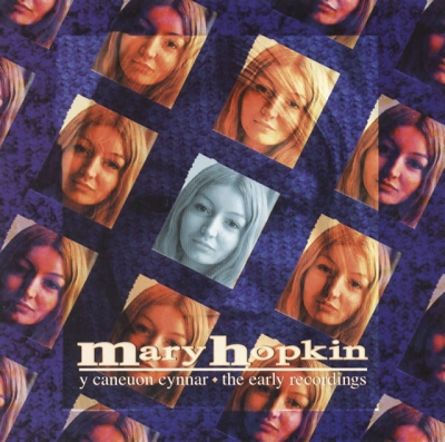 Artwork for the Album Y Caneuon Cynnar / The Early Recordings by Mary Hopkin